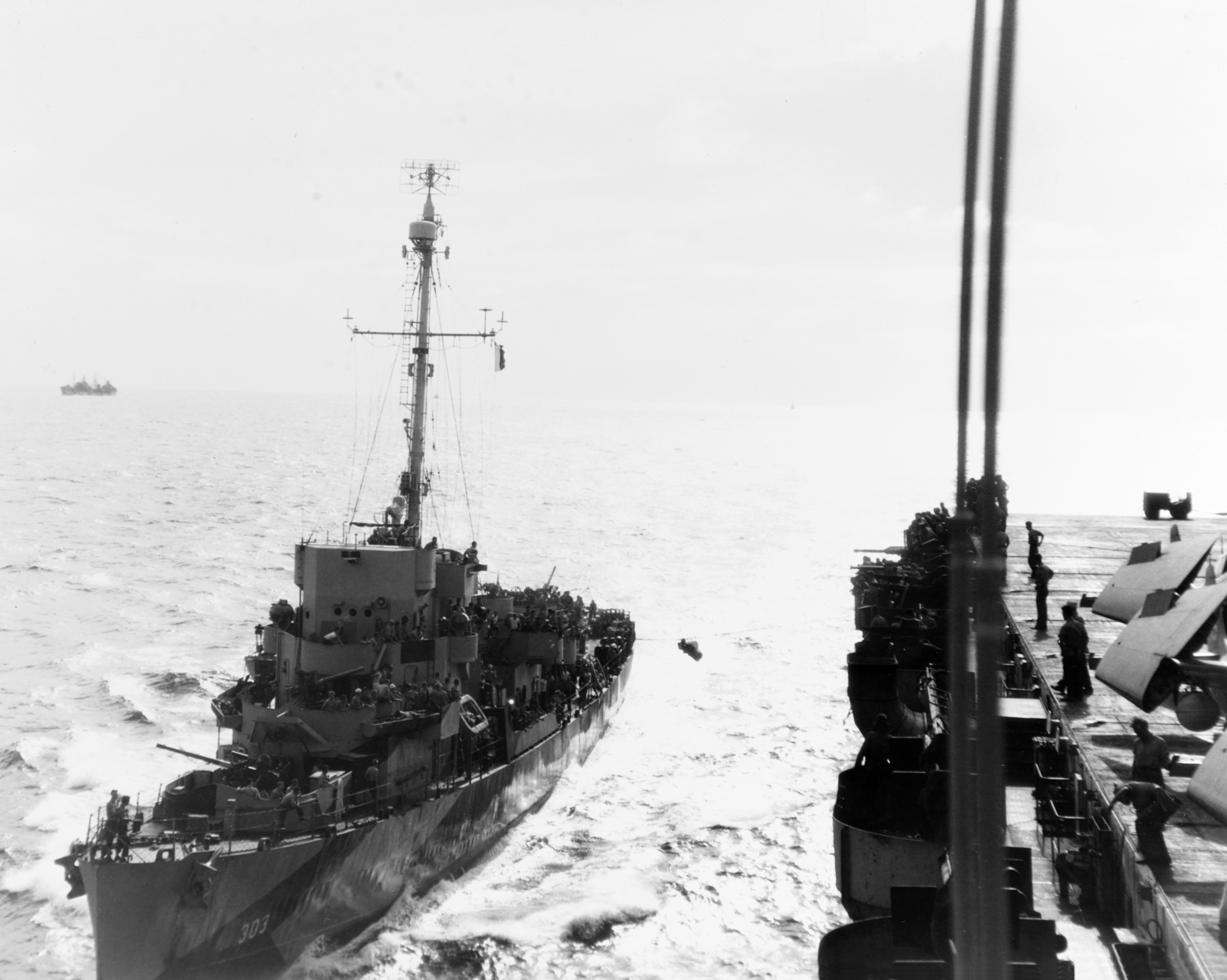 The U.S. Navy destroyer escort USS Crowley (DE-303) transfers a sick crewman to the escort carrier USS Sargent Bay (CVE-83), 15 January 1945.